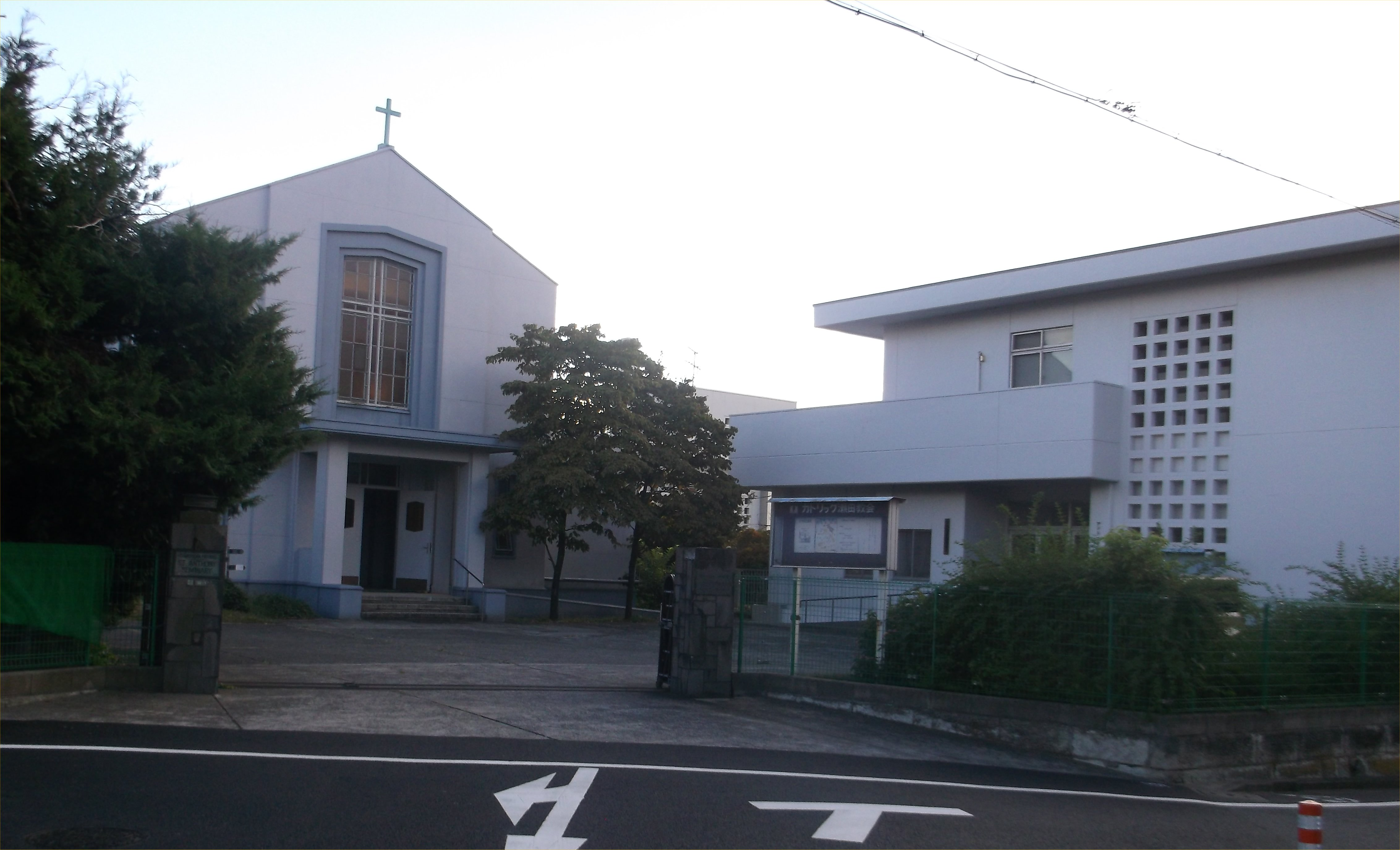 A photo of the entrance of St.Antonio Seminary,Seta,Setagaya-ku,Tokyo,Japan.